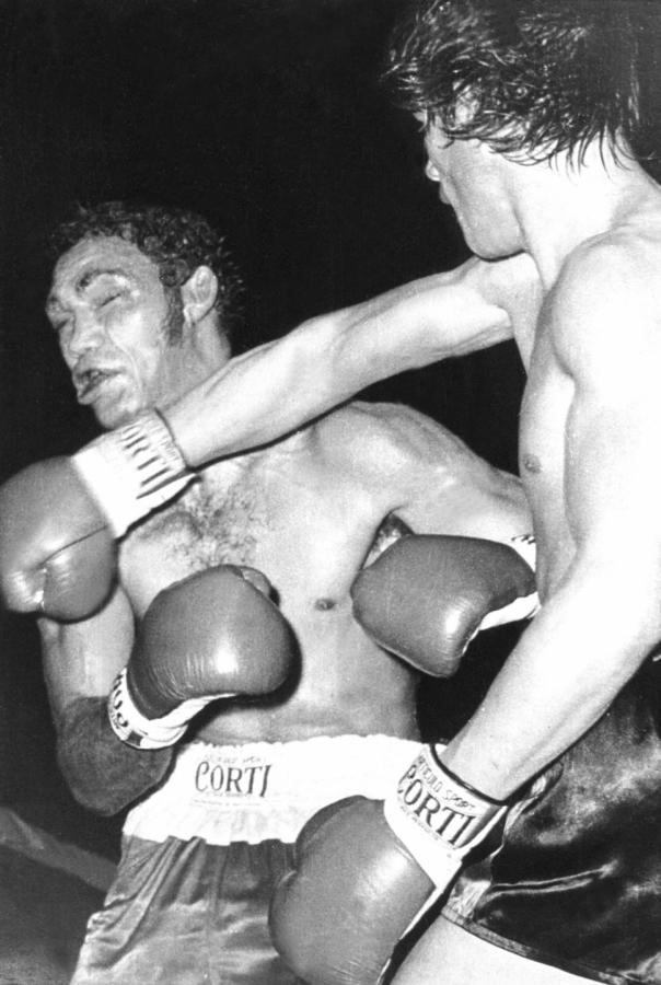 Tony Mundine being beat by Carlos Monzón in the fight at Luna Park of Buenos Aires